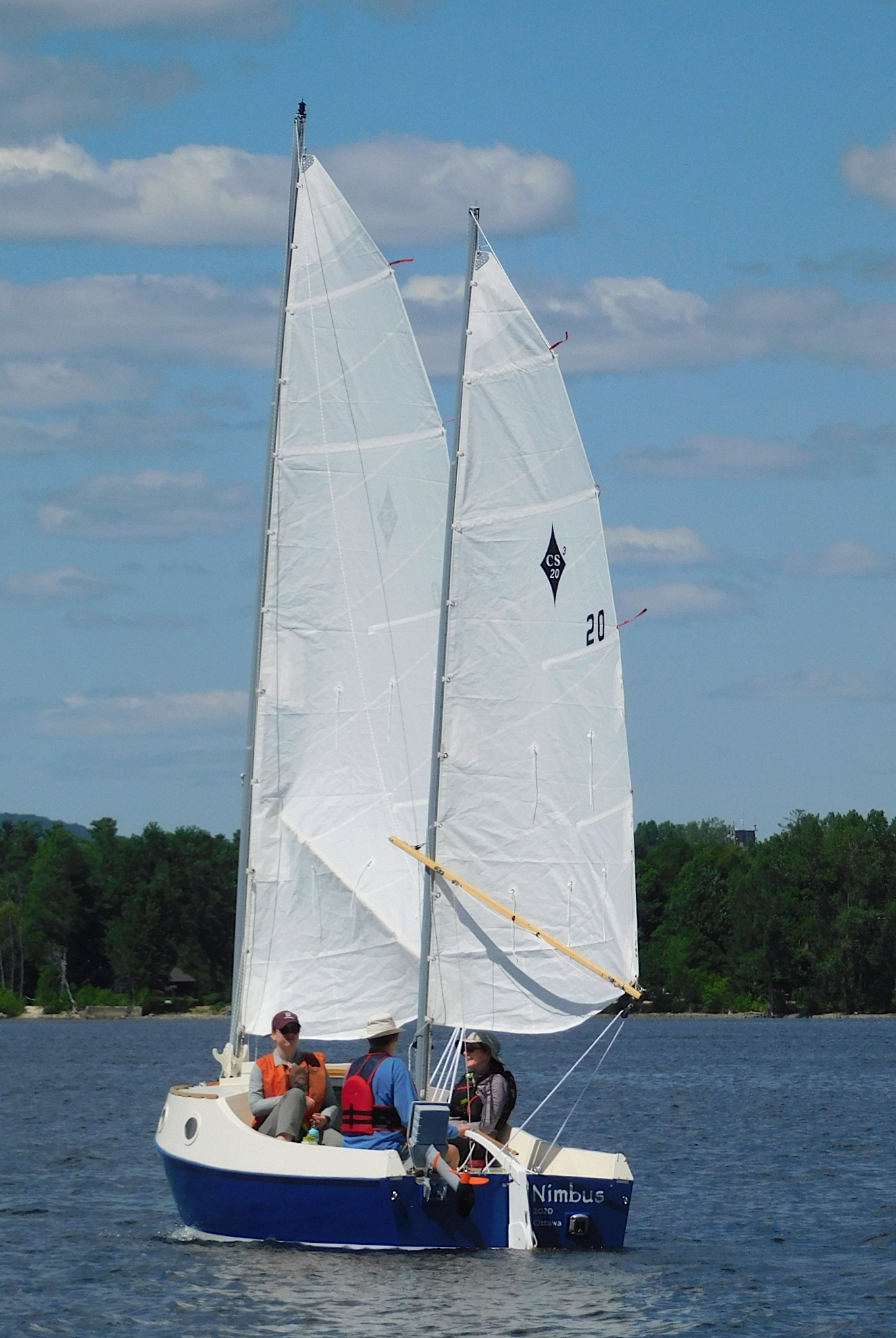 A Core Sound 20 Mk III sailboat named Nimbus 2020.